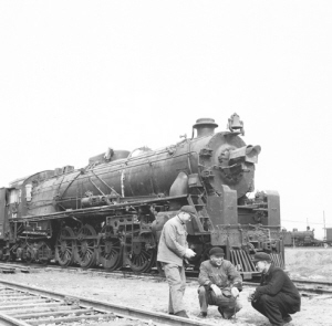 A China Railways KF7 steam locomotive at Qishuyan Rolling Stock Factory in 1953.